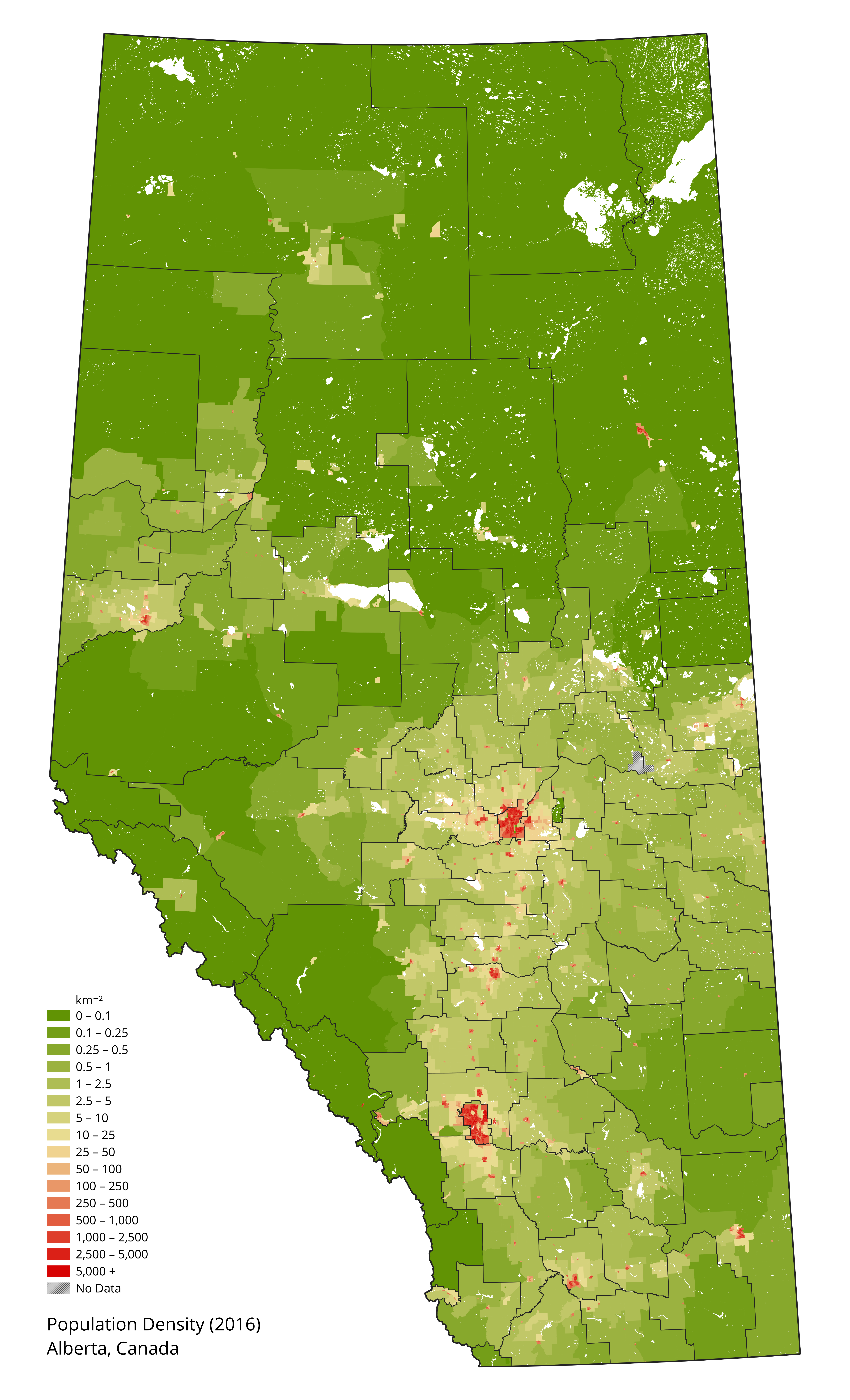 Population density map of Alberta, Canada. Boundary open data and final counts from Canadian 2016 Census accessed on April 22 2018. Waterbodies from WWF HydroLAKES database.